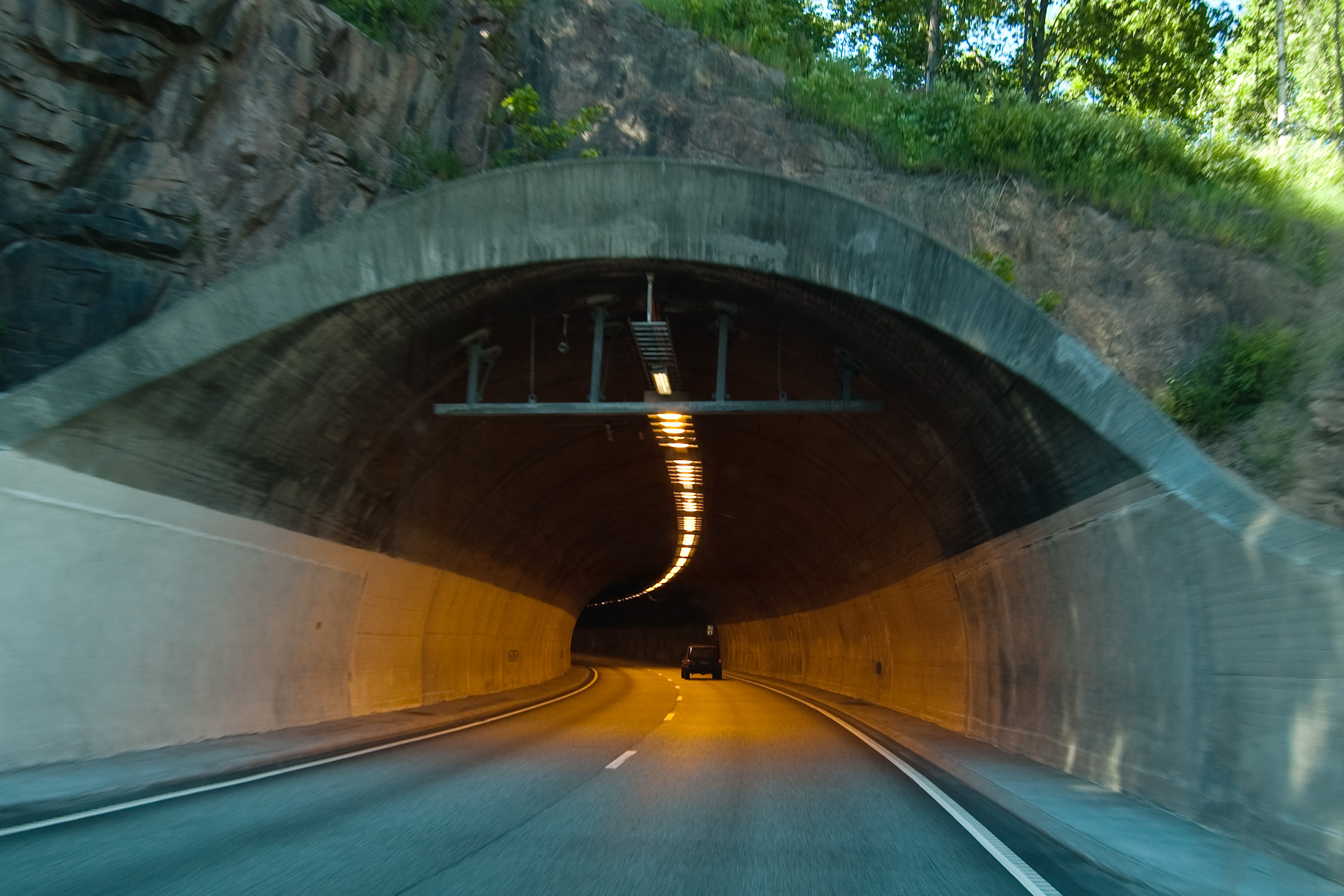 Kleivene tunnel on E18 in Drammen, Buskerud, Norway.